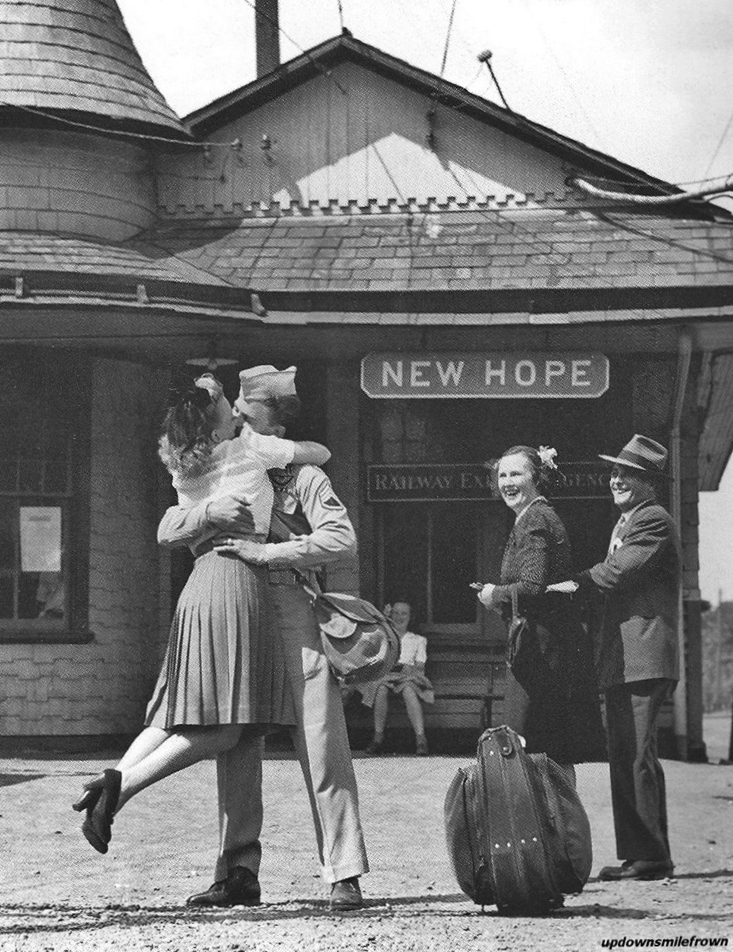 New Hope Train Station 1945